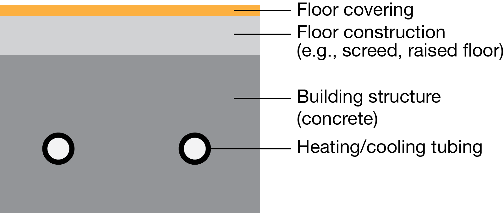 This file represents hydronic radiant system type E as described in the standard ISO 11855